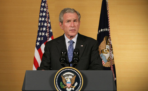 President George W. Bush addresses remarks Saturday, Aug.9, 2008 in Beijing, on the military conflict between Russia and Georgia. President Bush said he is concerned that the violence will endanger regional peace, and that the United States is working with European partners to launch international mediation.